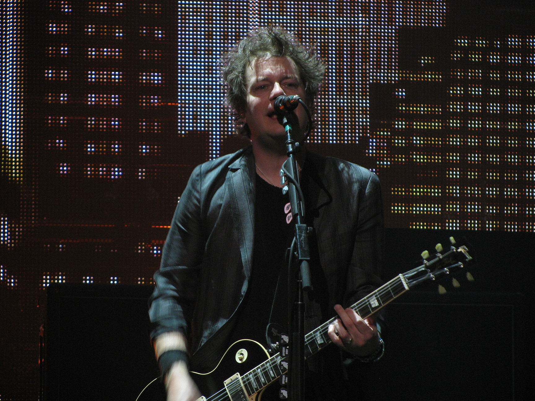 Jason White performing with Green Day at Scotiabank Place in Ottawa, Ontario, Canada